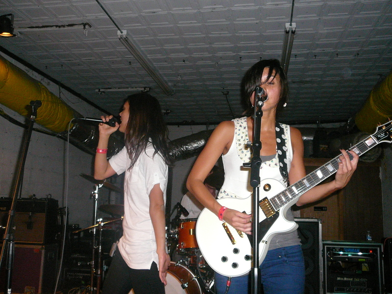 Meg & Dia sector 7g Augusta, GA